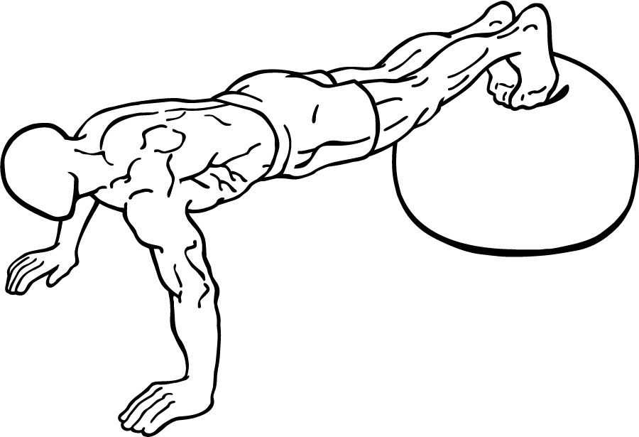 an exercise of chest